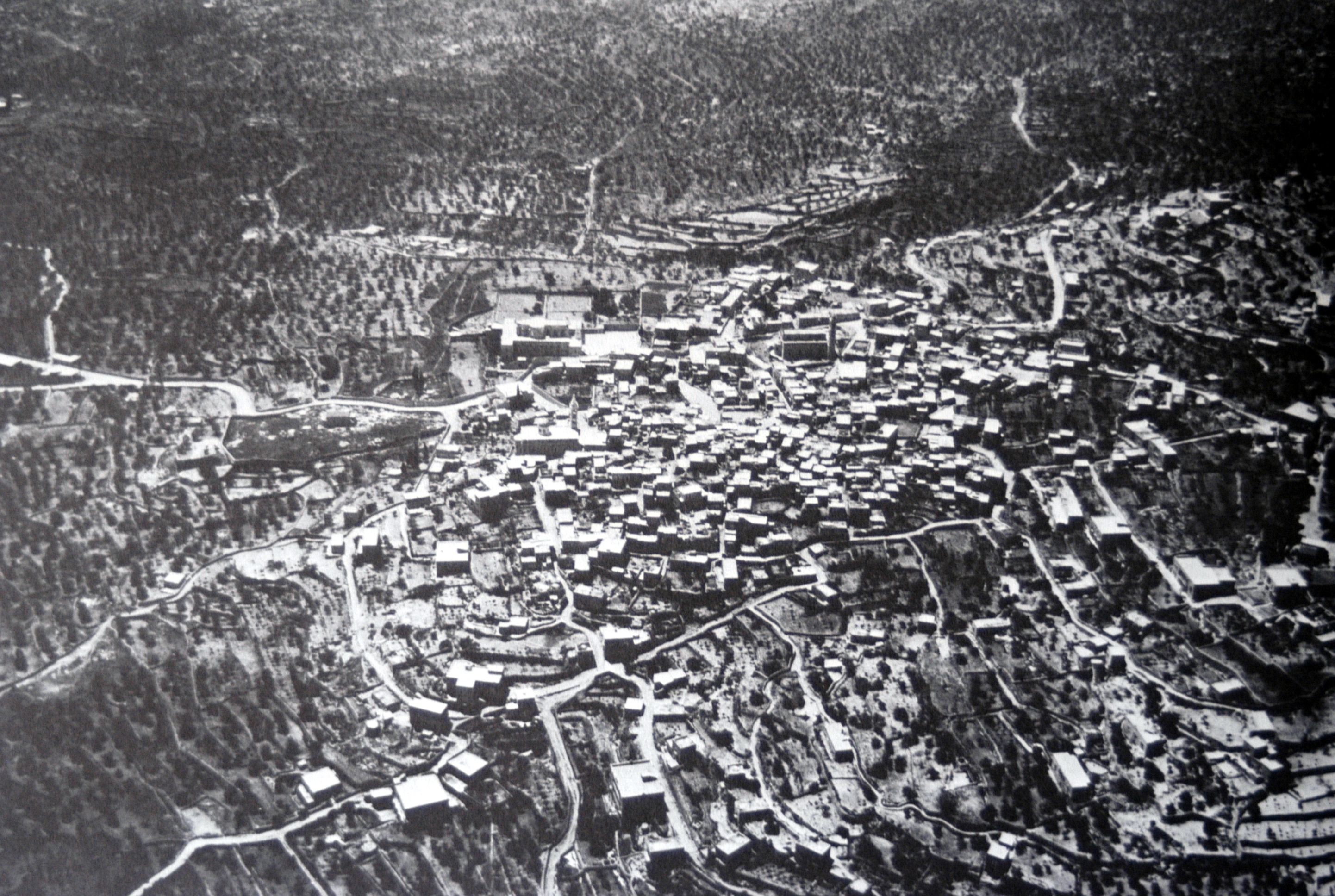 "Beit Jala, near Bethlehem, from the air. At the end of the Mandate its population was ca. 4,000, almost all of whom were Christian Palesinians. The village was capture by Israel in 1967."